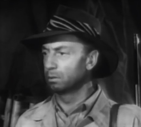 Maurice Marsacy in Tarzan and the Trappers - cropped screenshot